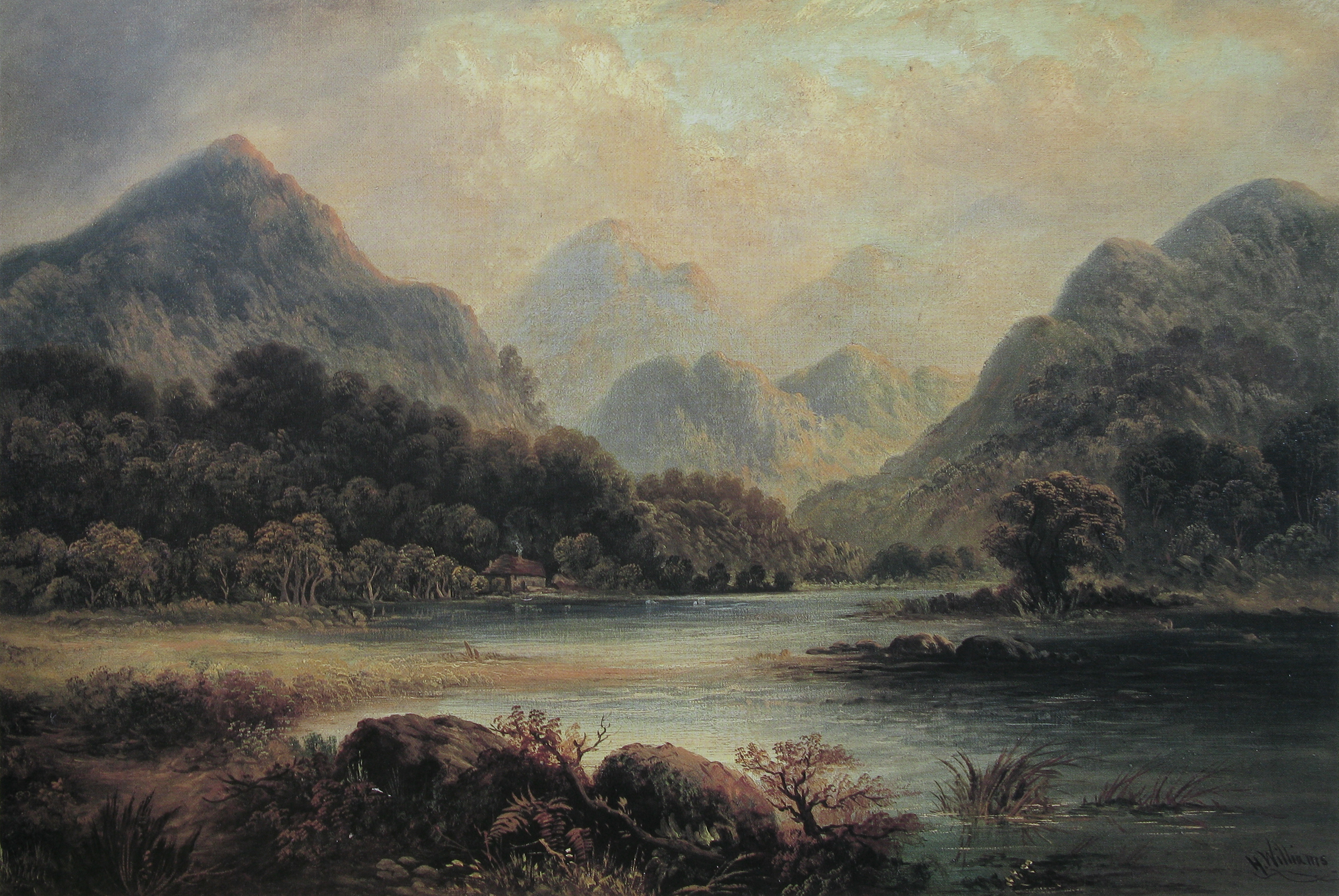 Glencoe